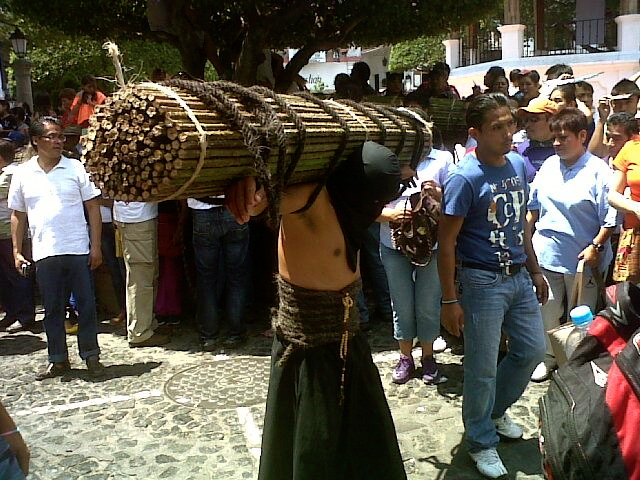 during holy Friday in Taxco people carry thorns to suffer and pay for their sins